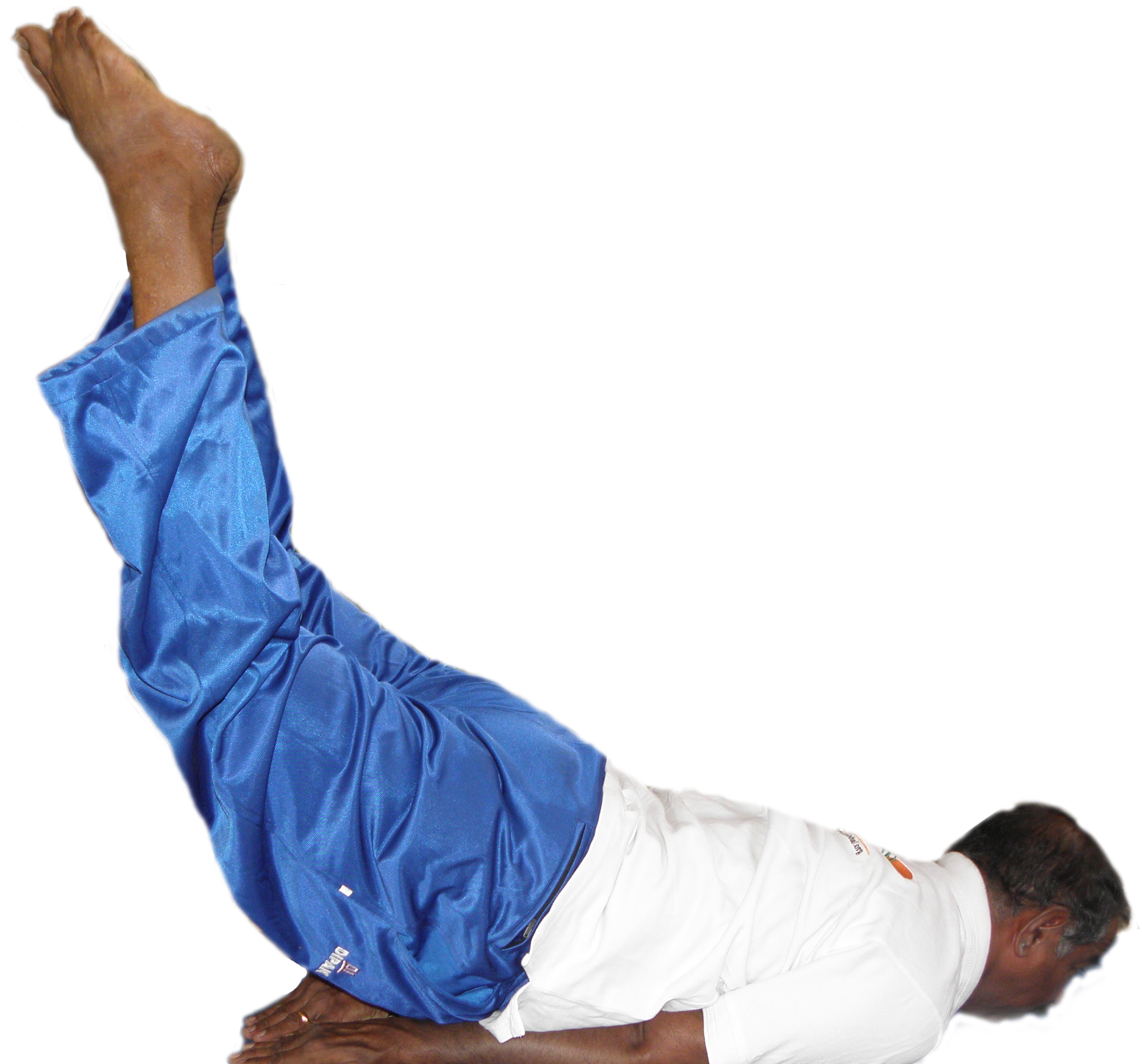 Locust-pose